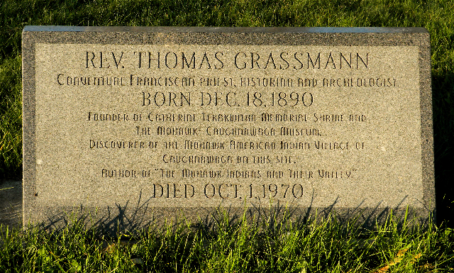 Caughnawaga Indian Village Site, Fonda, New York. Grave of excavator Rev. Thomas Grassmann.